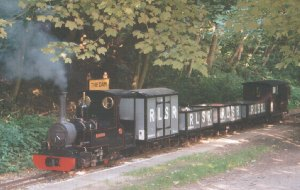 Picture at the Dam Station on Rudyard Lake Steam Railway Author M. Hanson